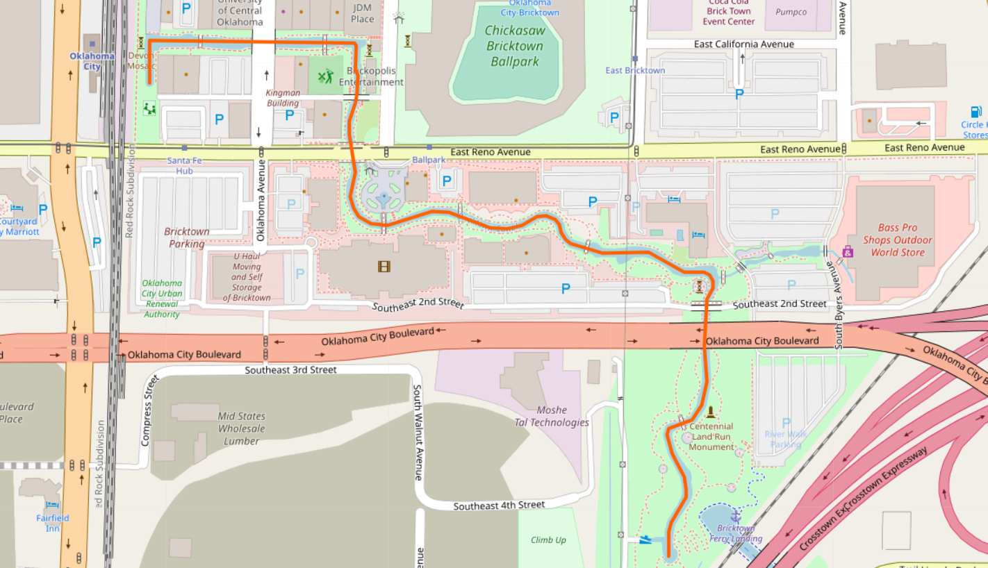 This map may be incomplete, and may contain errors. Don't rely solely on it for navigation.